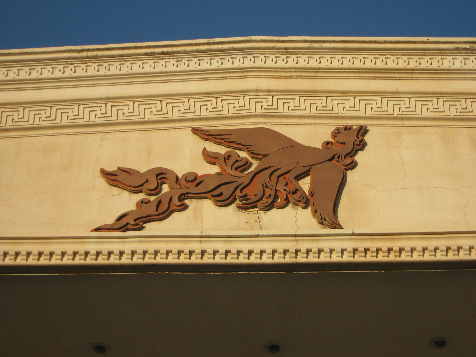 Simorgh symbol - Nishapur